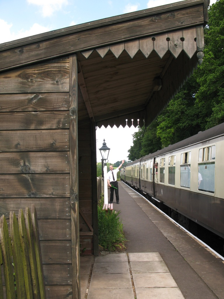 The guard of a Bishops Lydeard to Minehead train on the West Somerset Railway waves "right away" at Stogumber station, England.